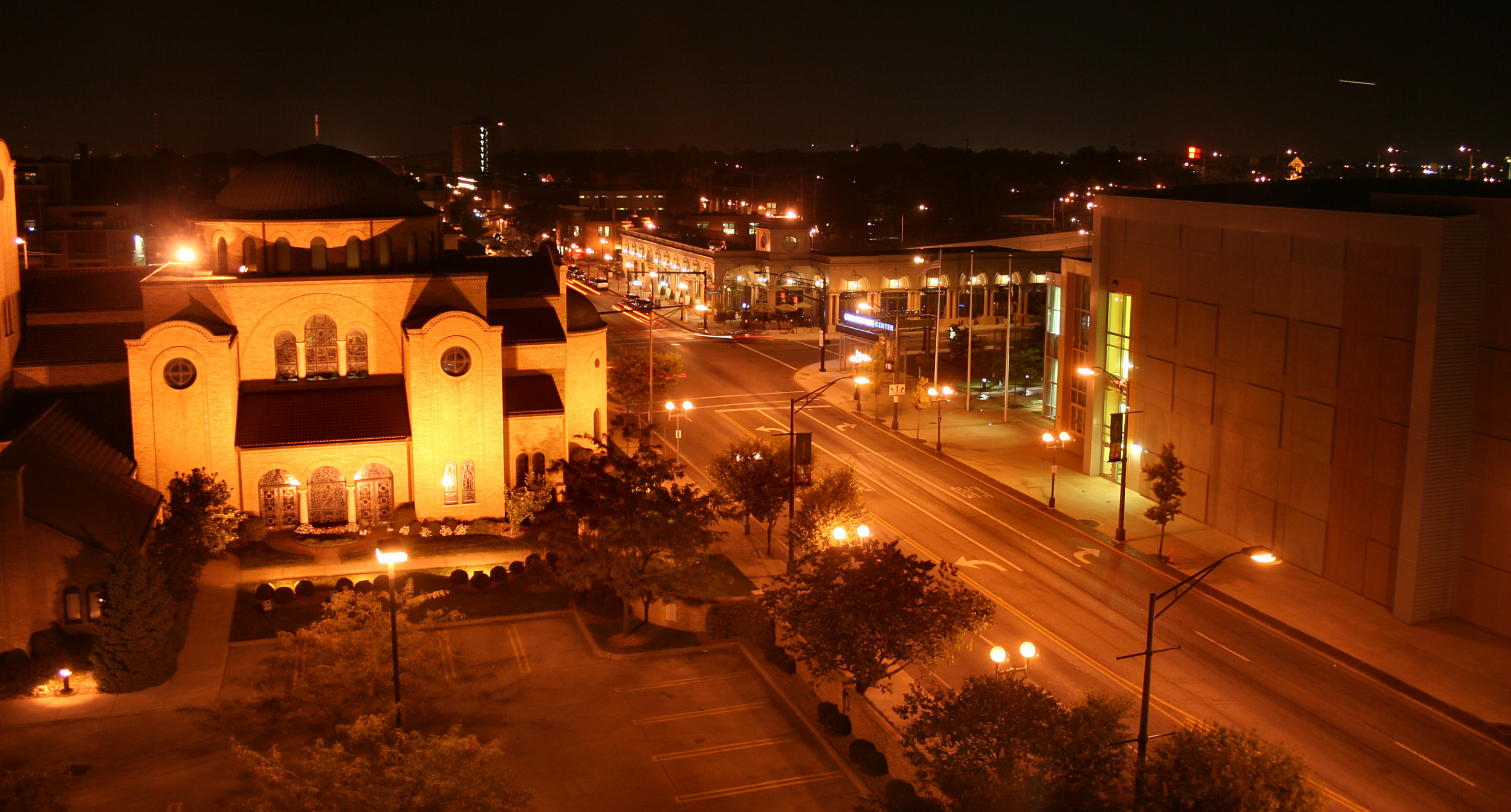 Columbus, Ohio High Street downtown, looking north. I-670 crosses under this part of town. The building on the left is a Greek Orthodox church. On the right is the Columbus Convention Center. Photo shot by Derek Jensen (Tysto), 2005-October-02